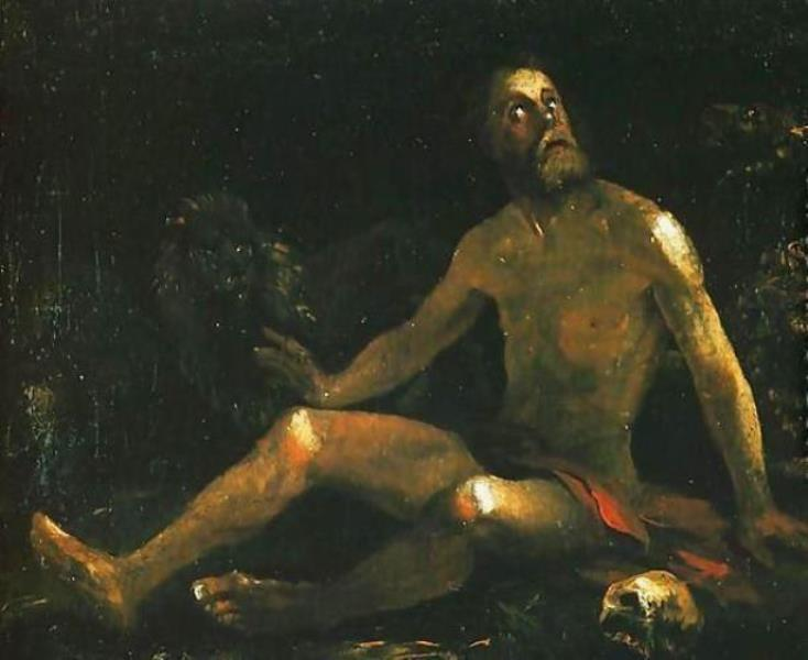 Wincenty Leopold Sleńdziński "Daniel in the Lions' Den". Silver medal of Imperial Academy of Arts, 1859